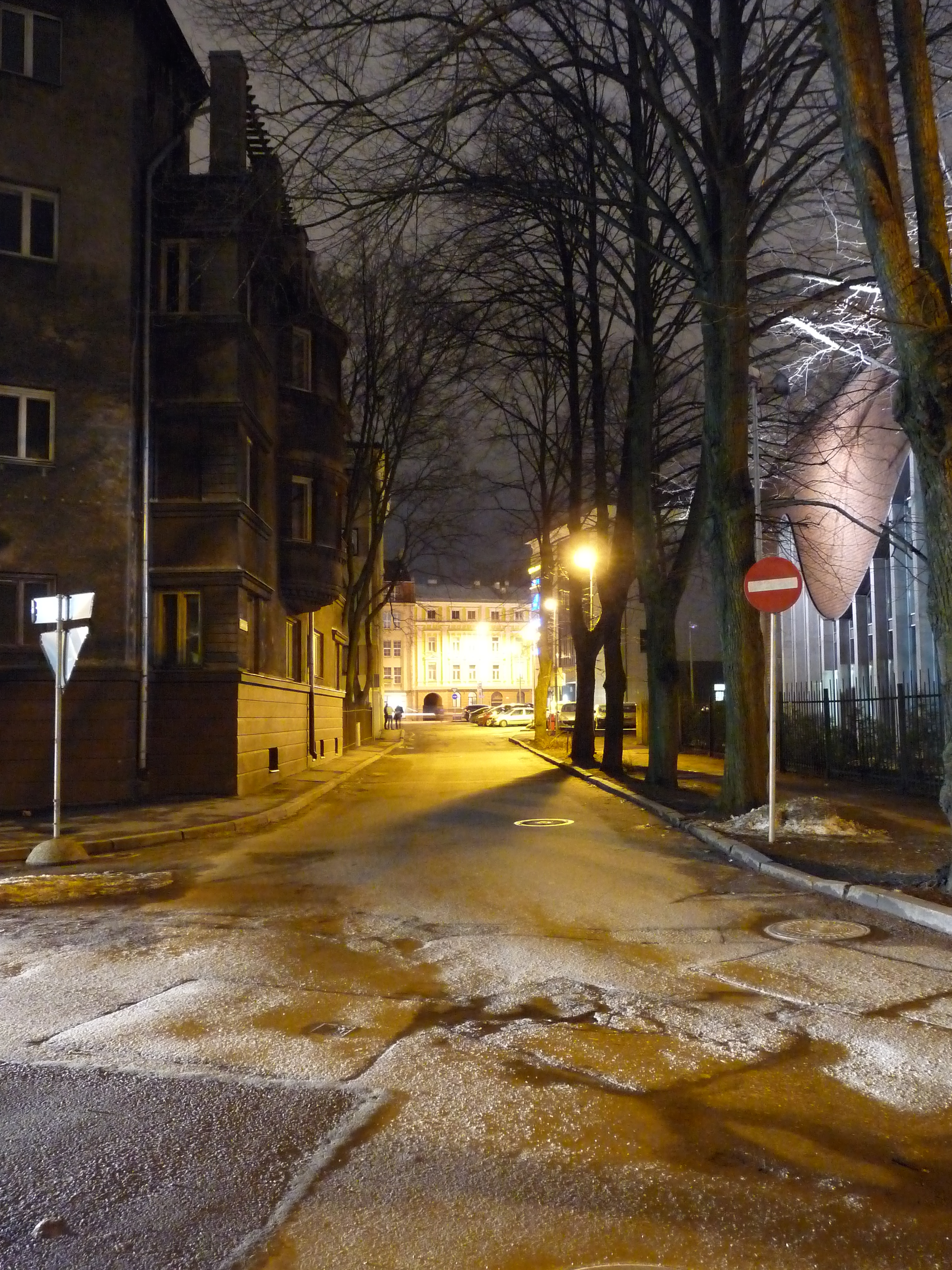 Aedvilja street in Tallinn, Estonia